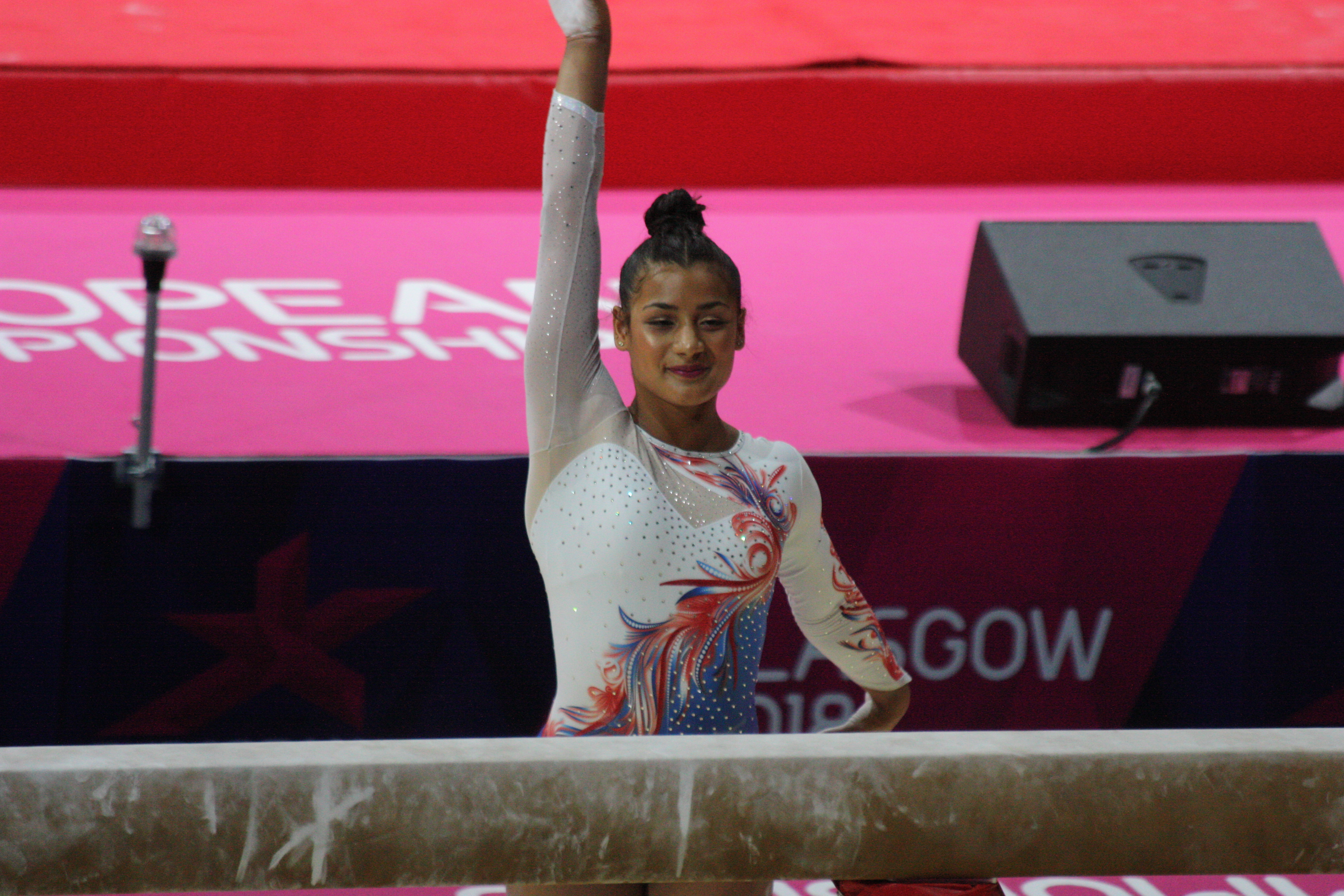 Marine Boyer during the qualifications at the European championships in Glasgow in 2018.